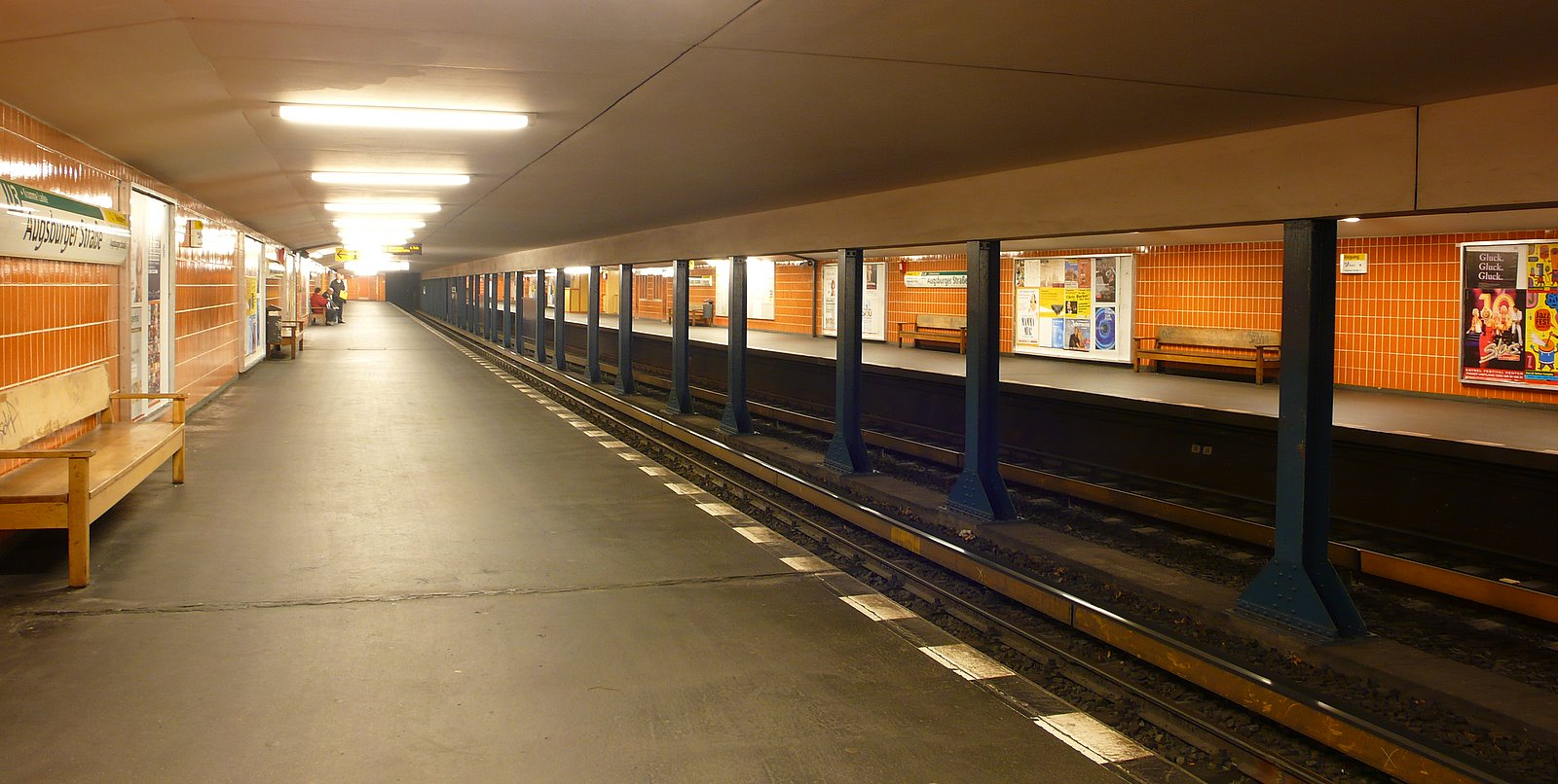 Subway station Augsburger Str. berlin